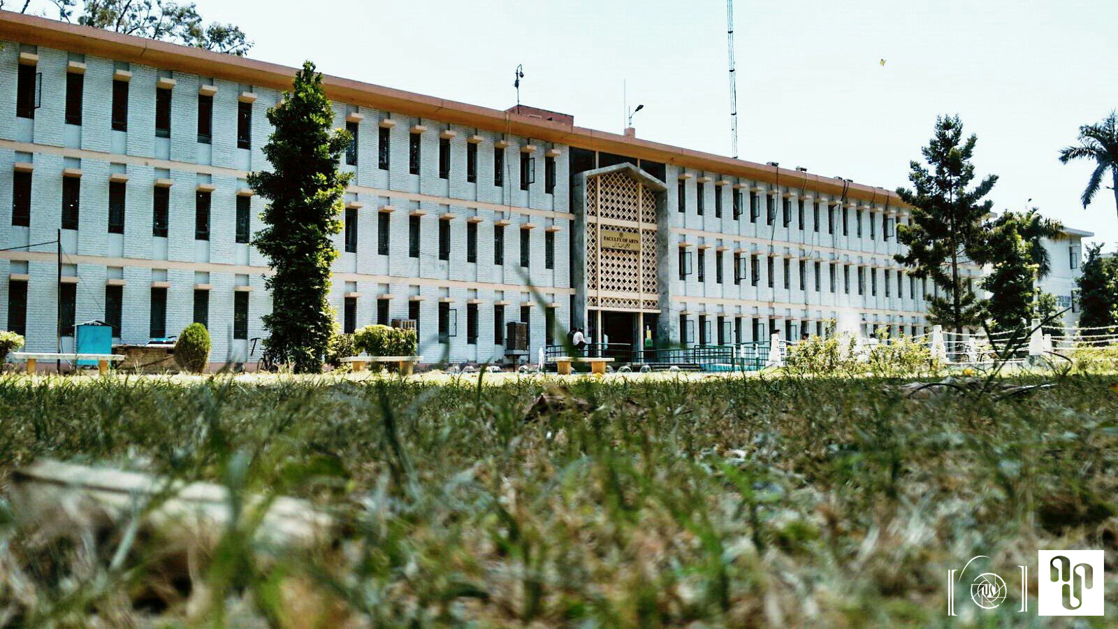 This is the front side of faculty of Arts, AMU Aligarh.